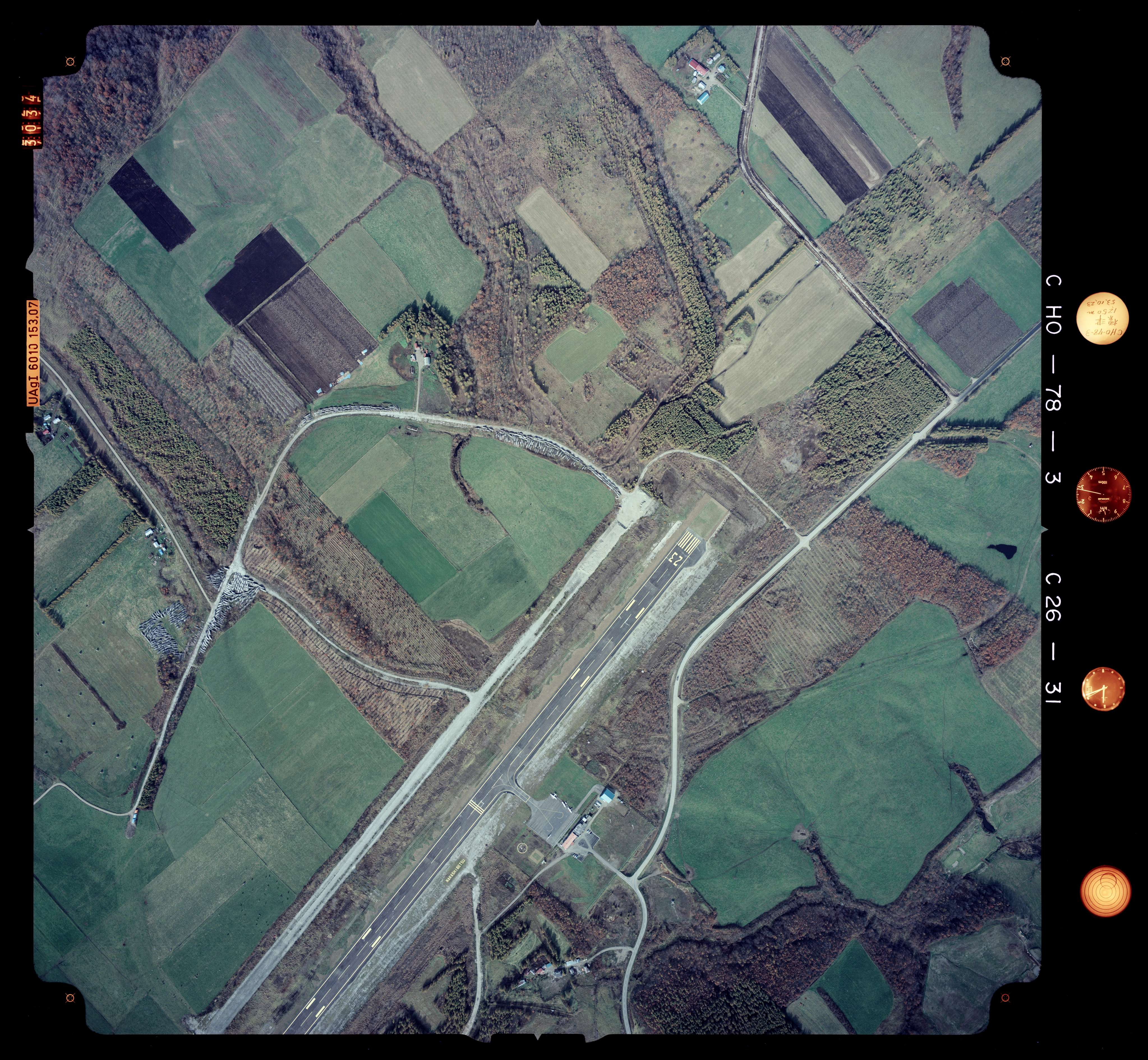 Photo by Geospatial Information Authority of Japan. Nakashibetsu Airport Runway(north), Hokkaido, Japan.